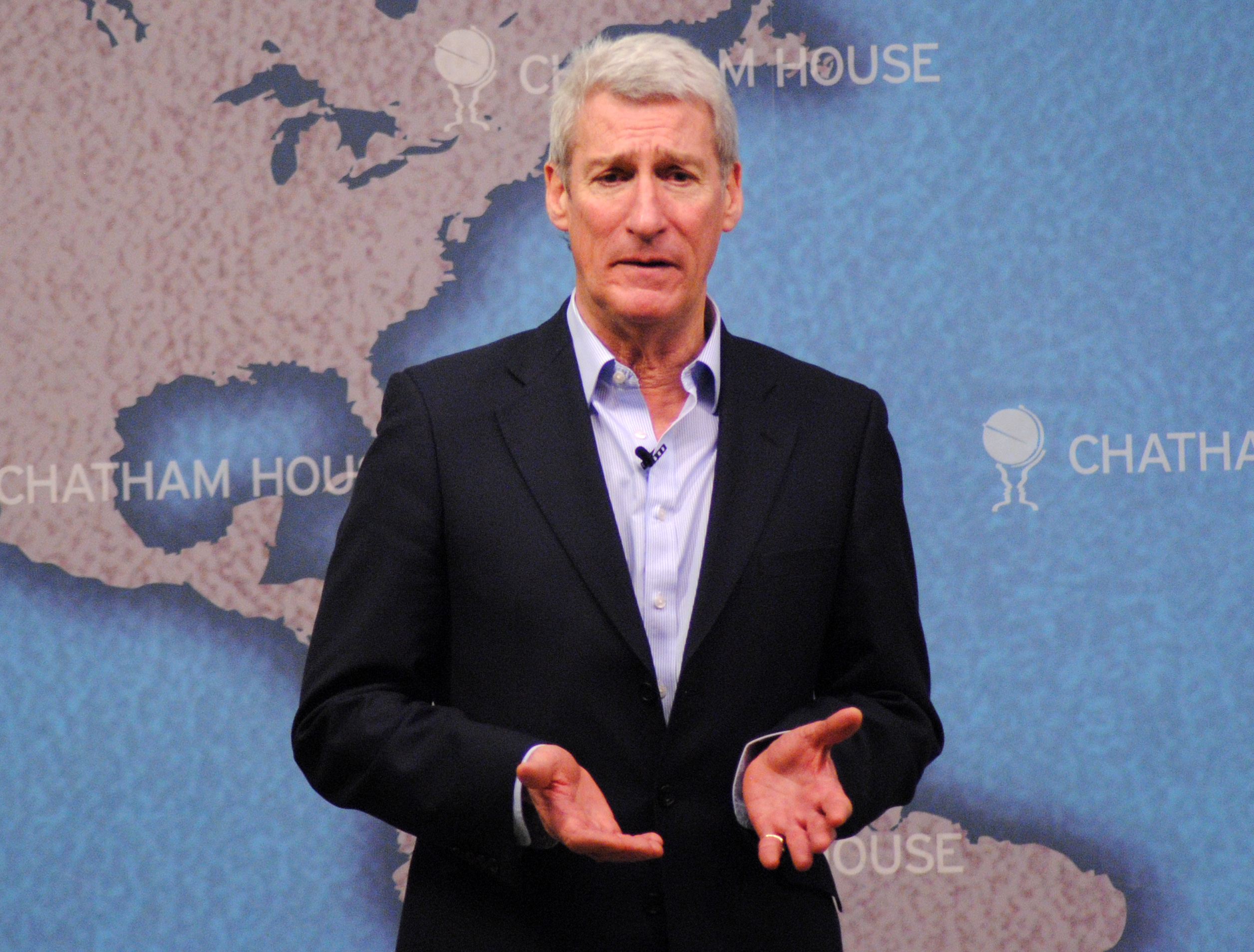 Britain in the Great War, 19 February 2014, cht.hm/1kXhYPN